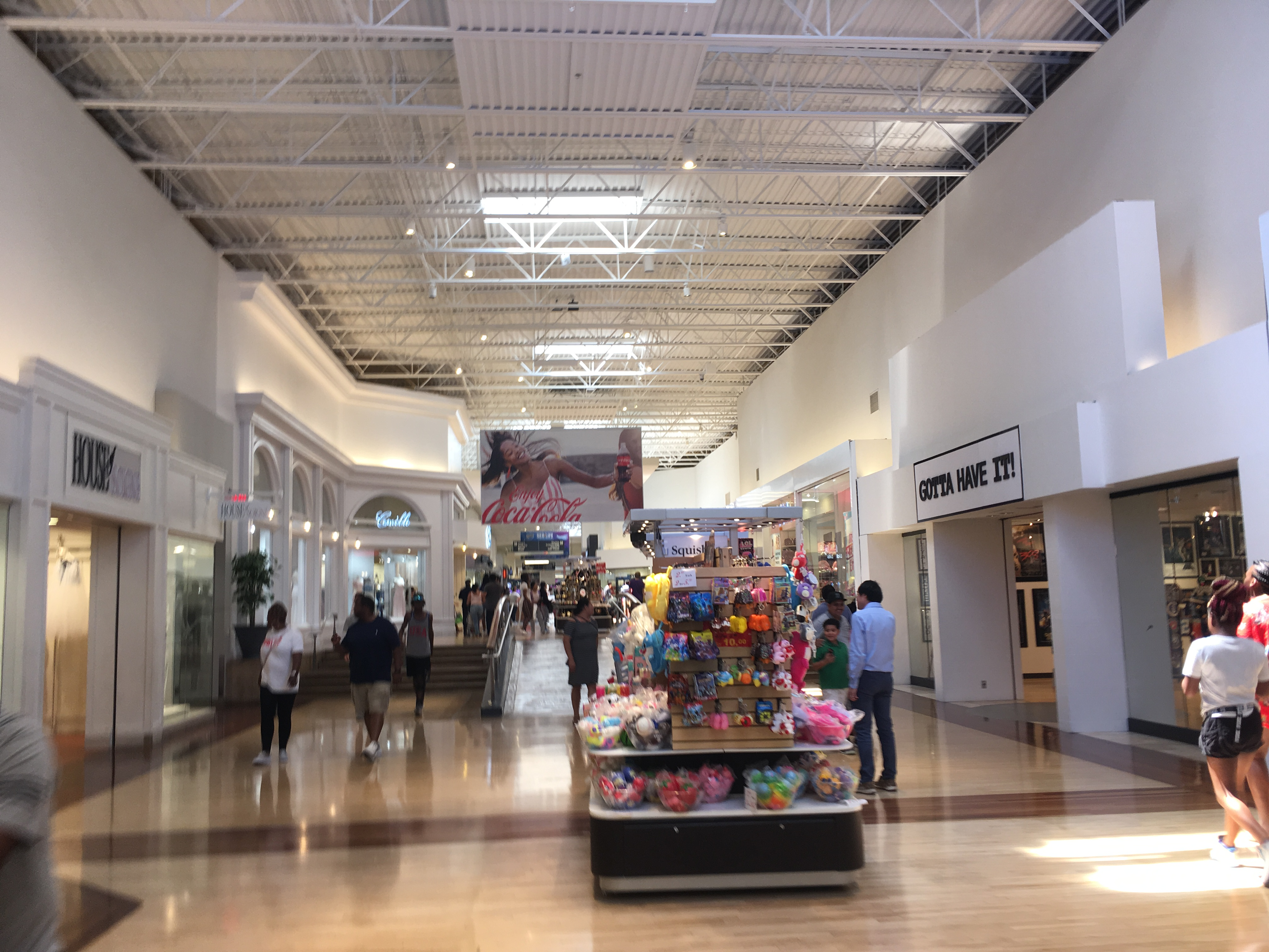 A view of the Concord Mills shopping mall in Concord, North Carolina looking west from entrance 6